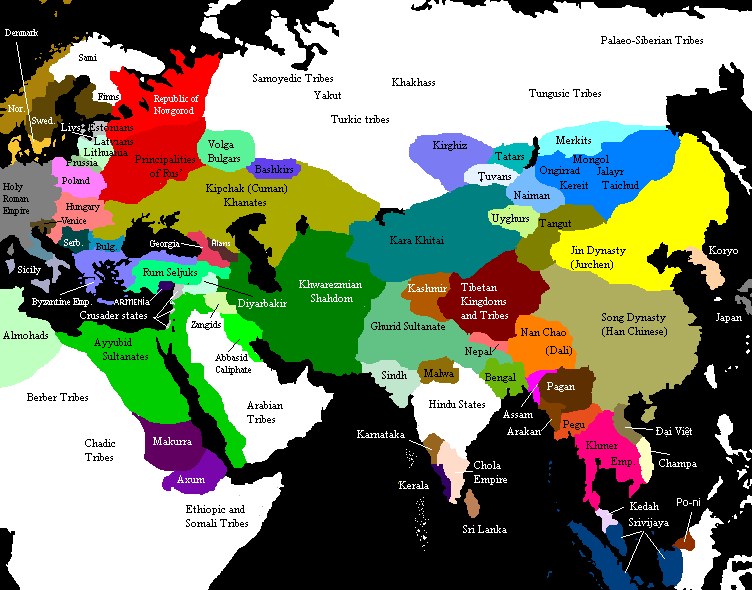 Eurasia before the mongolian invasion. Source unknown. Use only in conjunction with references. It's recommended using File:Premongol.png instead of this map because File:PremongolEurasia.png contains lot of errors. Here are some published maps of 13th-century Eurasia that can be used as an actual reference: The Public Schools Historical Atlas by Charles Colbeck. Longmans, Green; New York; London; Bombay. 1905. Historic Atlas of Iran, Iran Cultural Heritage Organization (ICHO), 1971, 1999 old Russian school atlas(?)